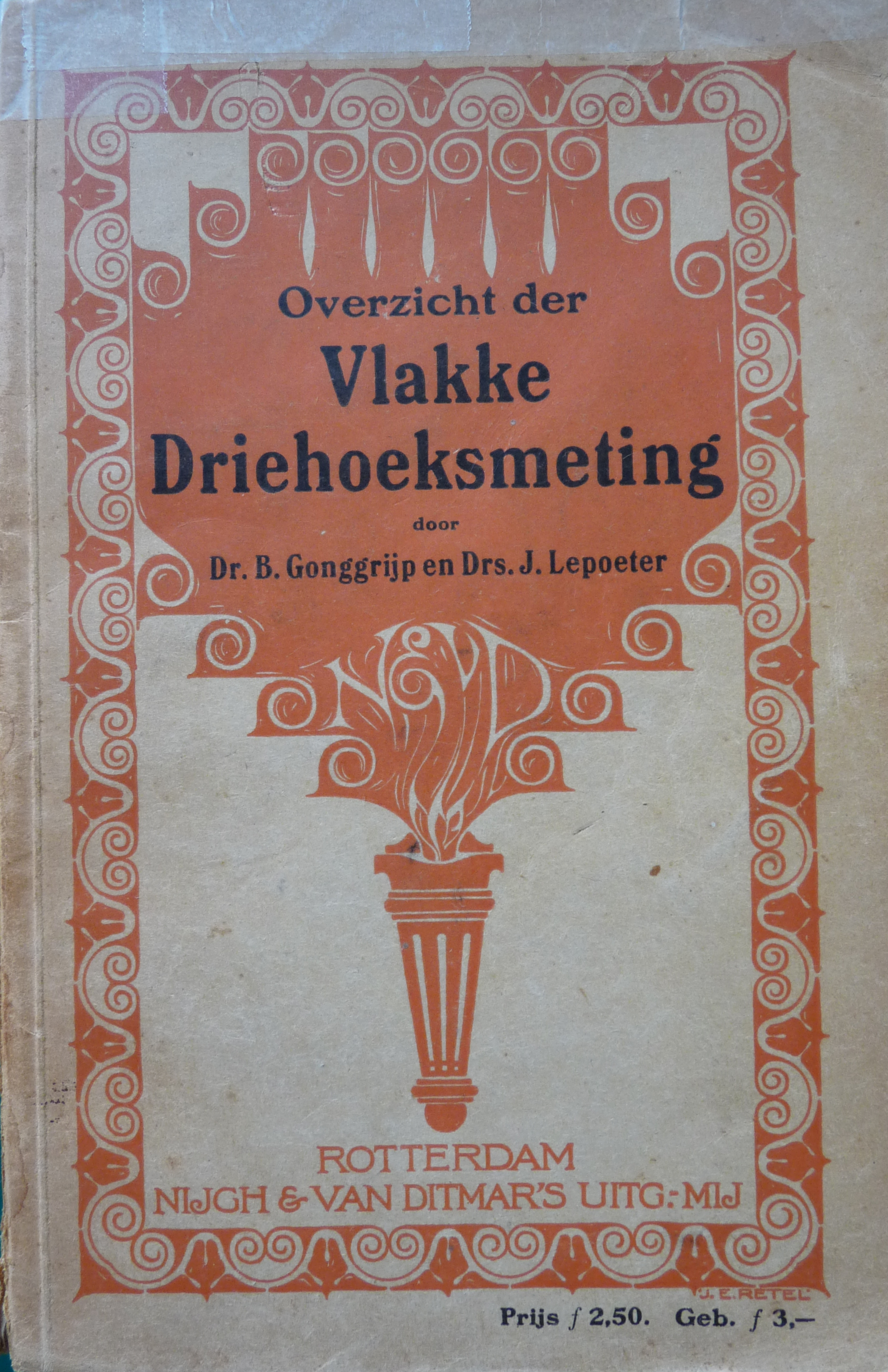 Front page of a mathematics book by B.Gonggrijp and J.Lepoeter